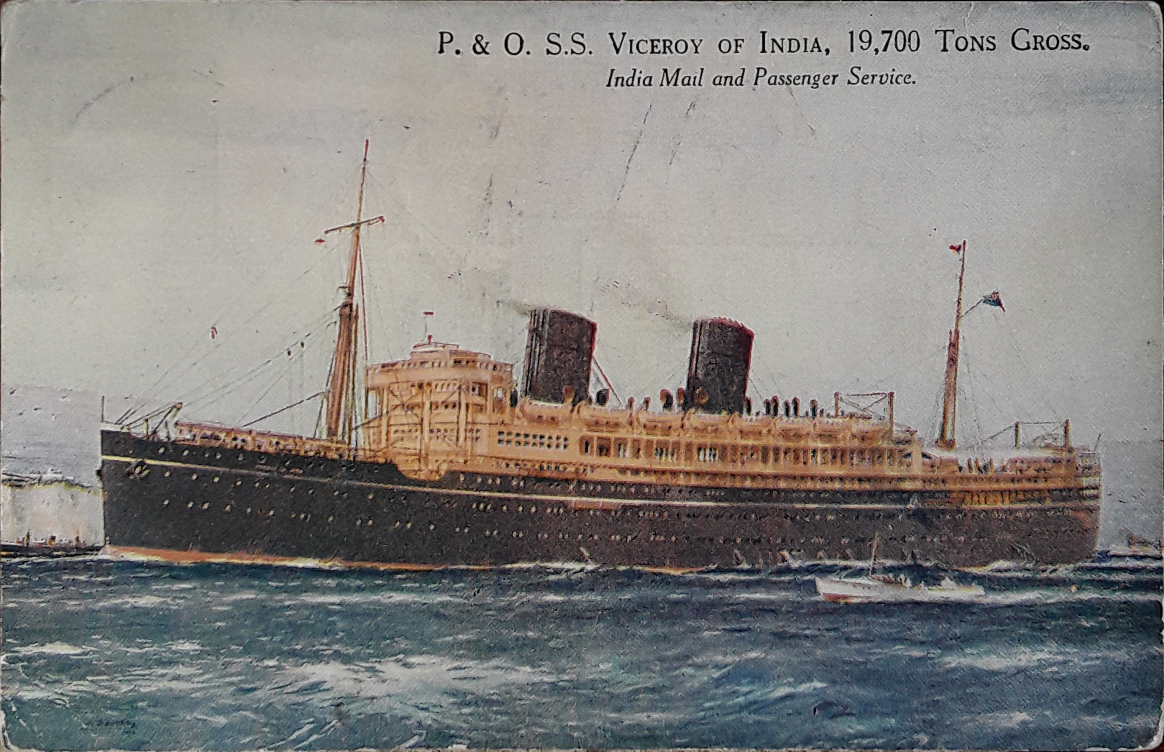 Photograph of a postcard of the passenger ship "The Viceroy of India", purchased by George Cecil Griffiths during a passage in 1935 from India to England. No information is known about the creator of the postcard image (a re-touched photograph), so under English copyright law this image is presumed to have entered the public domain 70 years after sale.